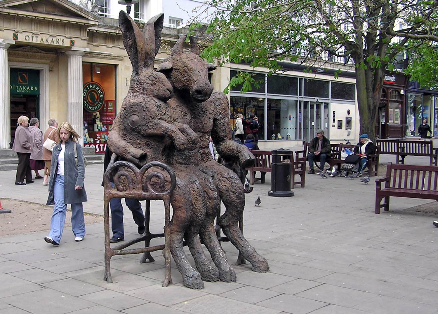 “The Minotaur and the Hare” by Sophie Ryder, 1995, Cheltenham town centre. Sophie Ryder is an English sculptor, born 1963. The bronze is 7 feet high (2.1 metres) Photographed by Adrian Pingstone in April 2005 and released to the public domain.